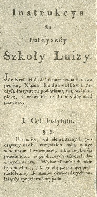 cover page of a rulebook of Luisenschule, a school open in Posen/Poznań in 1830-1919